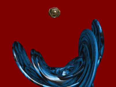 Teo Spiller Computer Graphic (1996), algorhitmic abstraction